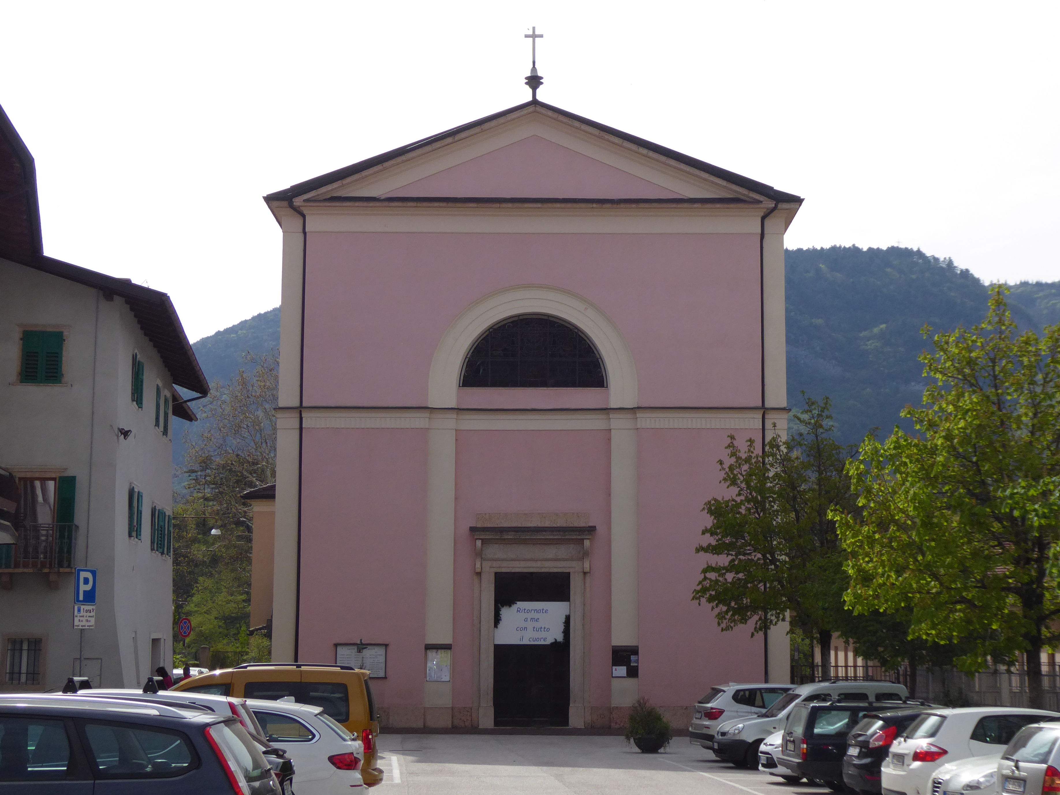 Cadine (Trento) - Our Lady of Sorrows church